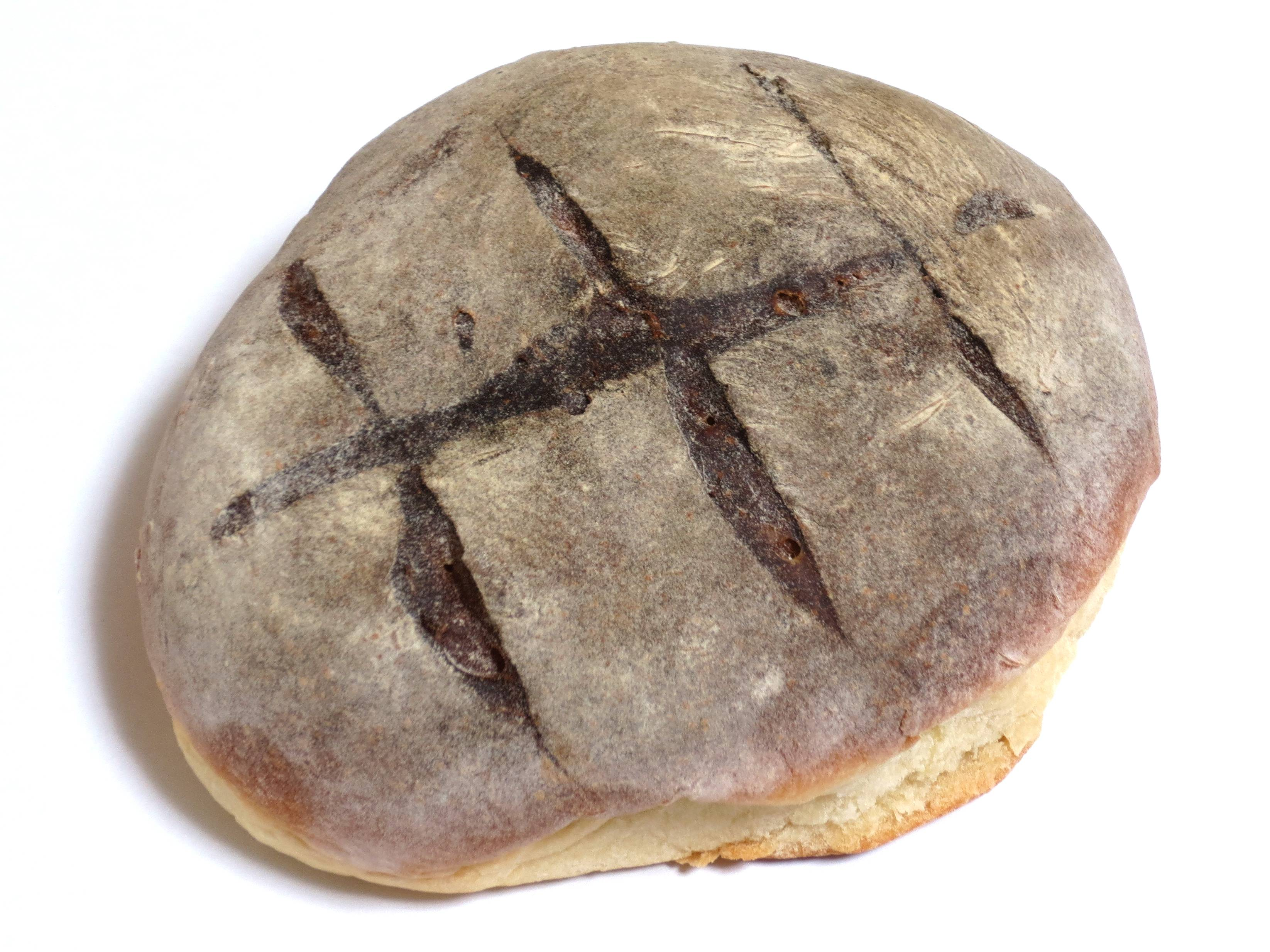 Michinoeki Oasis Nanmoku Torao's Bread.